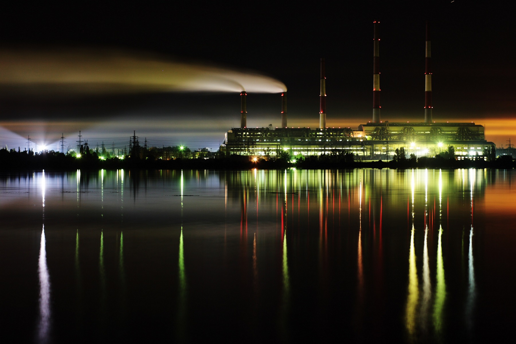 Zmiiv thermal power plant, a view from the opposit side of a reservoir (Liman lake).